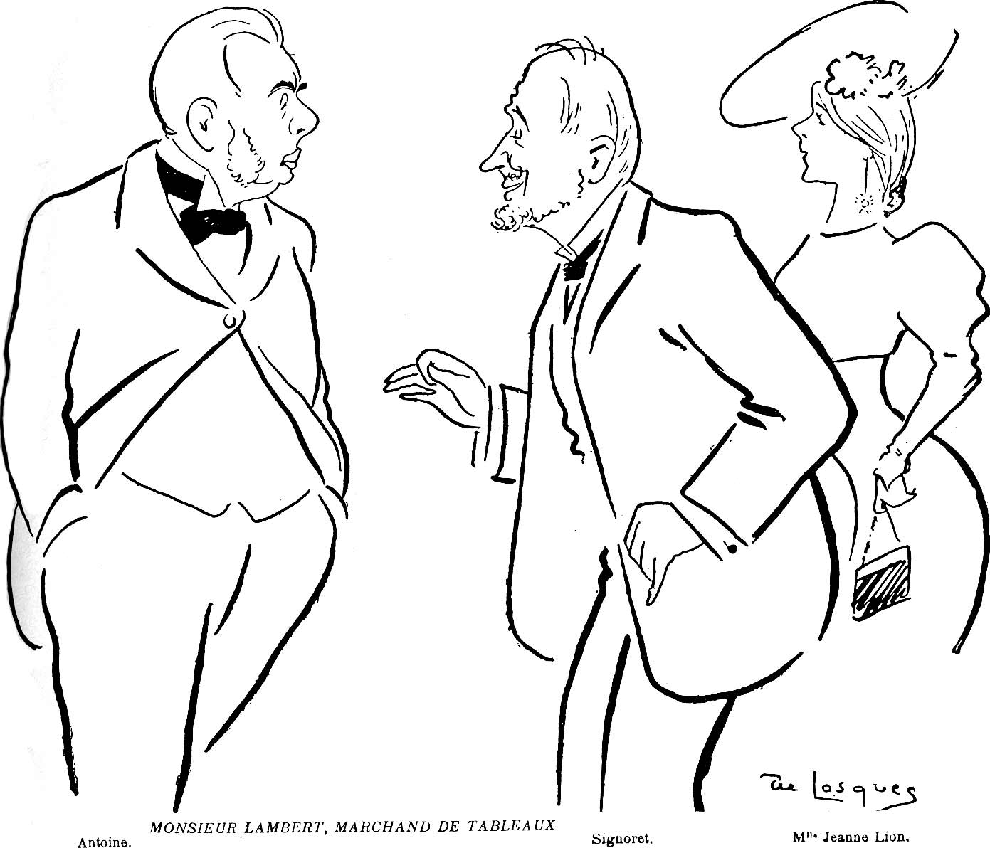 "Monsieur Lambert, Marchand de tableaux".